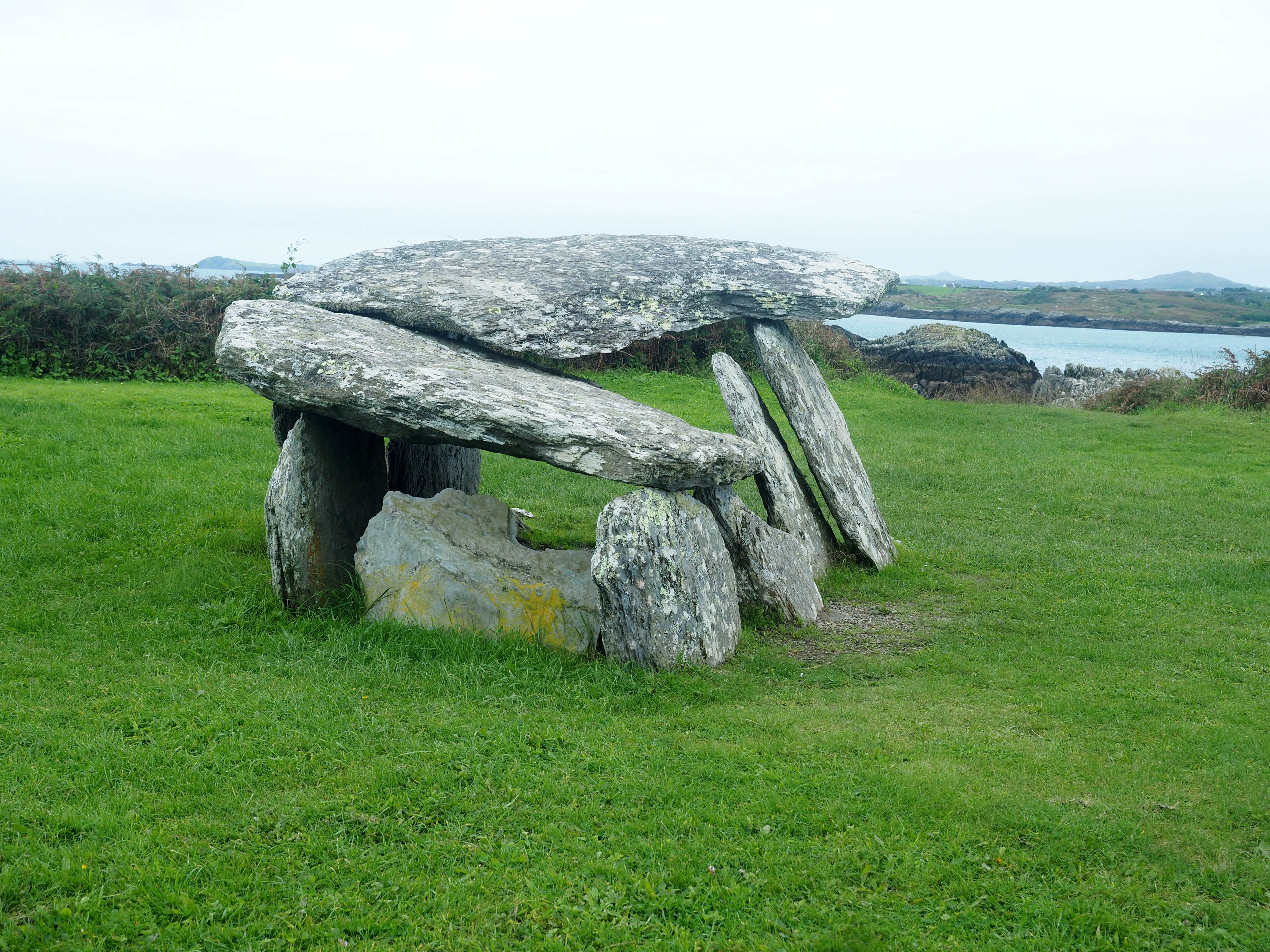 Altar wedge tomb